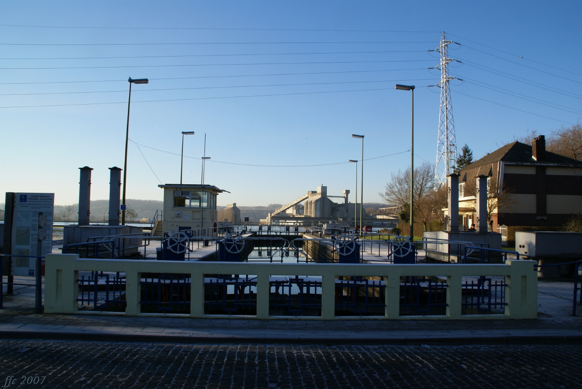 The Lock on the Canal Visé-Haccourt in Belgium